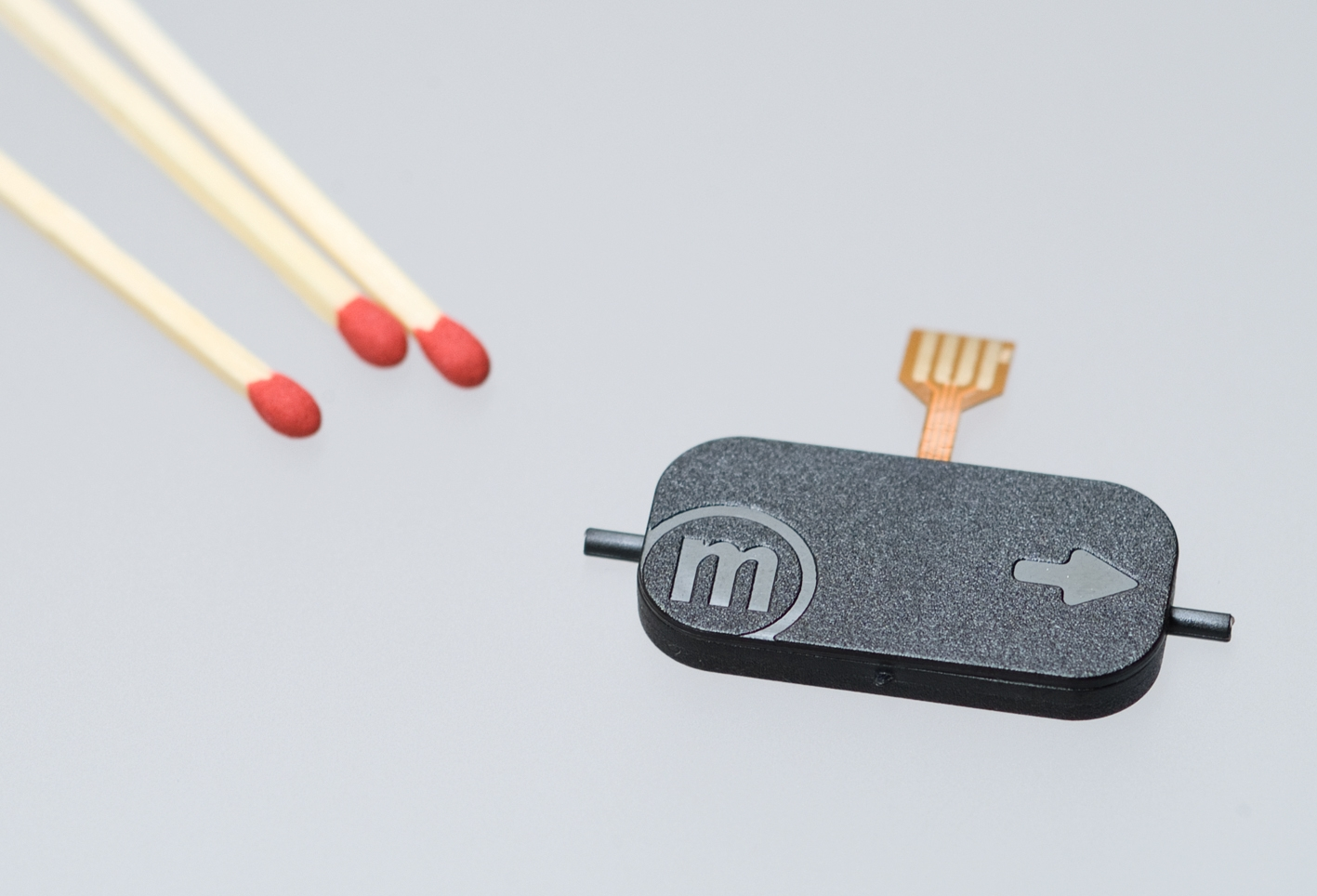 picture of a micropump includiung a relation in size to a matchstick